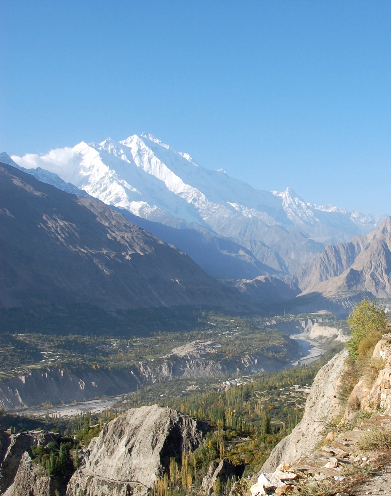 Rakaposhi tops out over the Hunza Valley